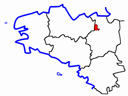 Description: Map for localisazion of cantons of Bretagne region in France Source: made by Hervé Tigier from another large map (published in 1990)